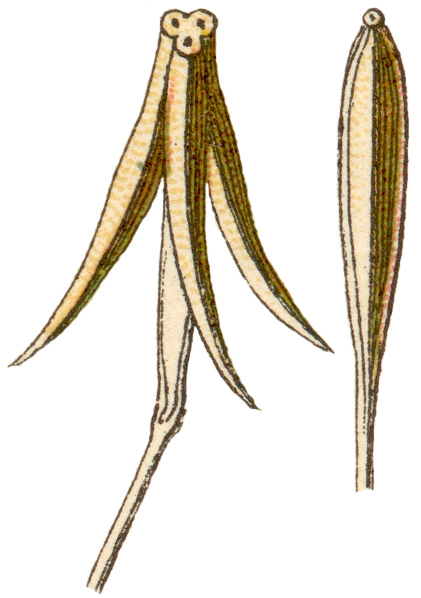 Triglochin palustris L.; Fig. from book